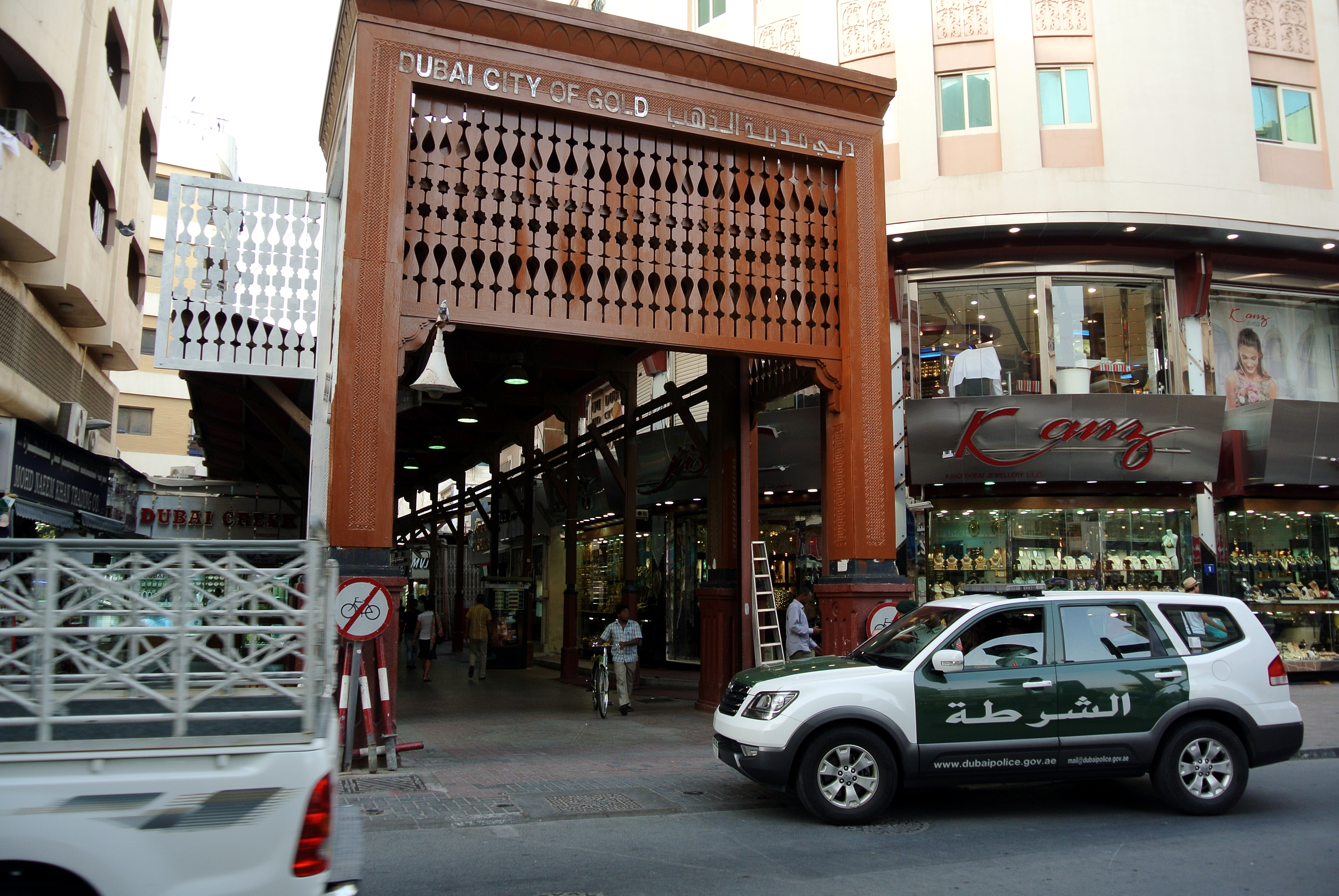 Dubai Gold Souq entrance (Old Baladiya street, Deira) and Dubai Police vehicle.